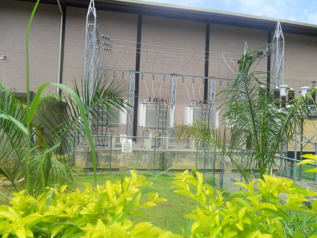 Transformers